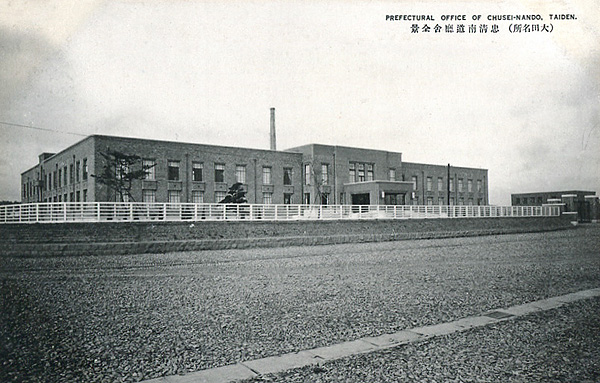 Chusei-Nan(Chungchongnam) Provincial Office